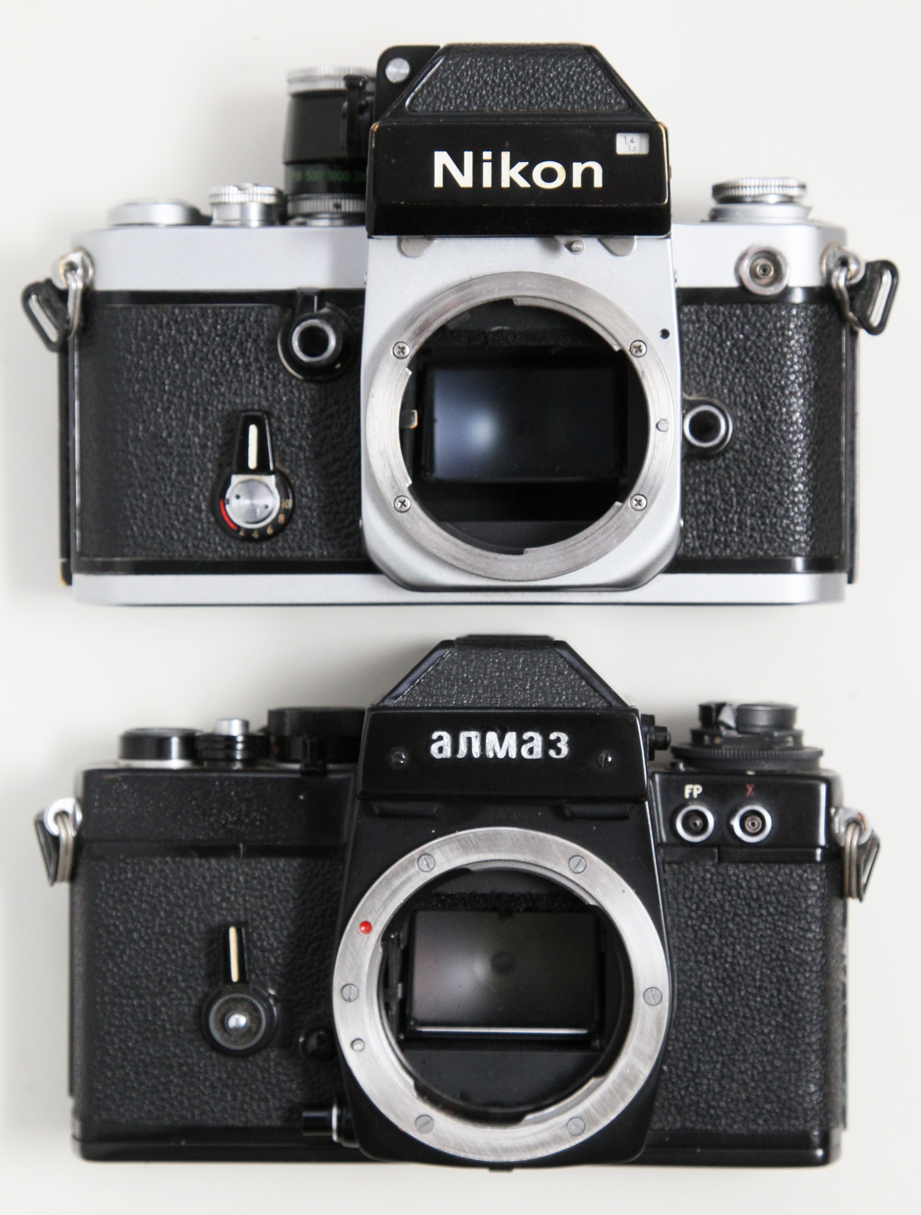 Comparation of 'Nikon F2 Photomic' (top) and 'Almaz-103' (bottom) SLR cameras.